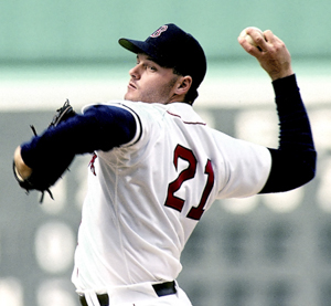 Boston Red Sox Roger Clemens at Fenway Park 1990